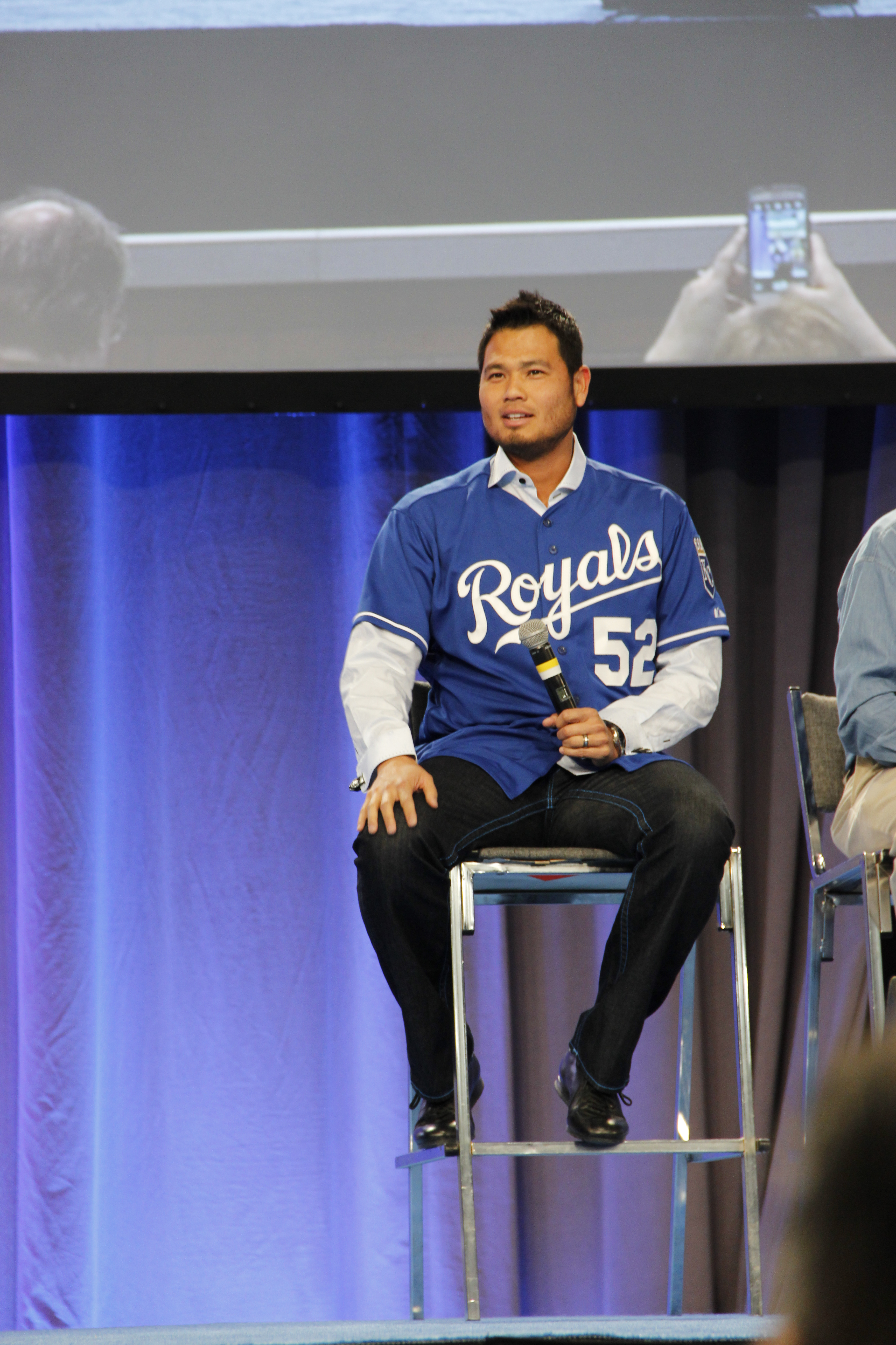 Major League Baseball player Bruce Chen at the Kansas City Royals Fan Fest, 1 February 2014.